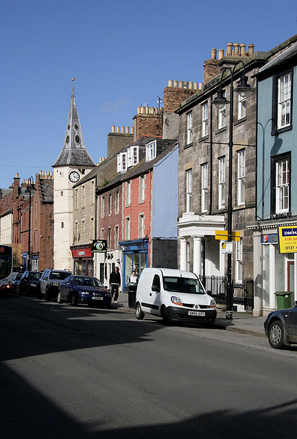 Dunbar High Street The northeast side of the street with the clock spire of Dunbar Town House prominent on the left.